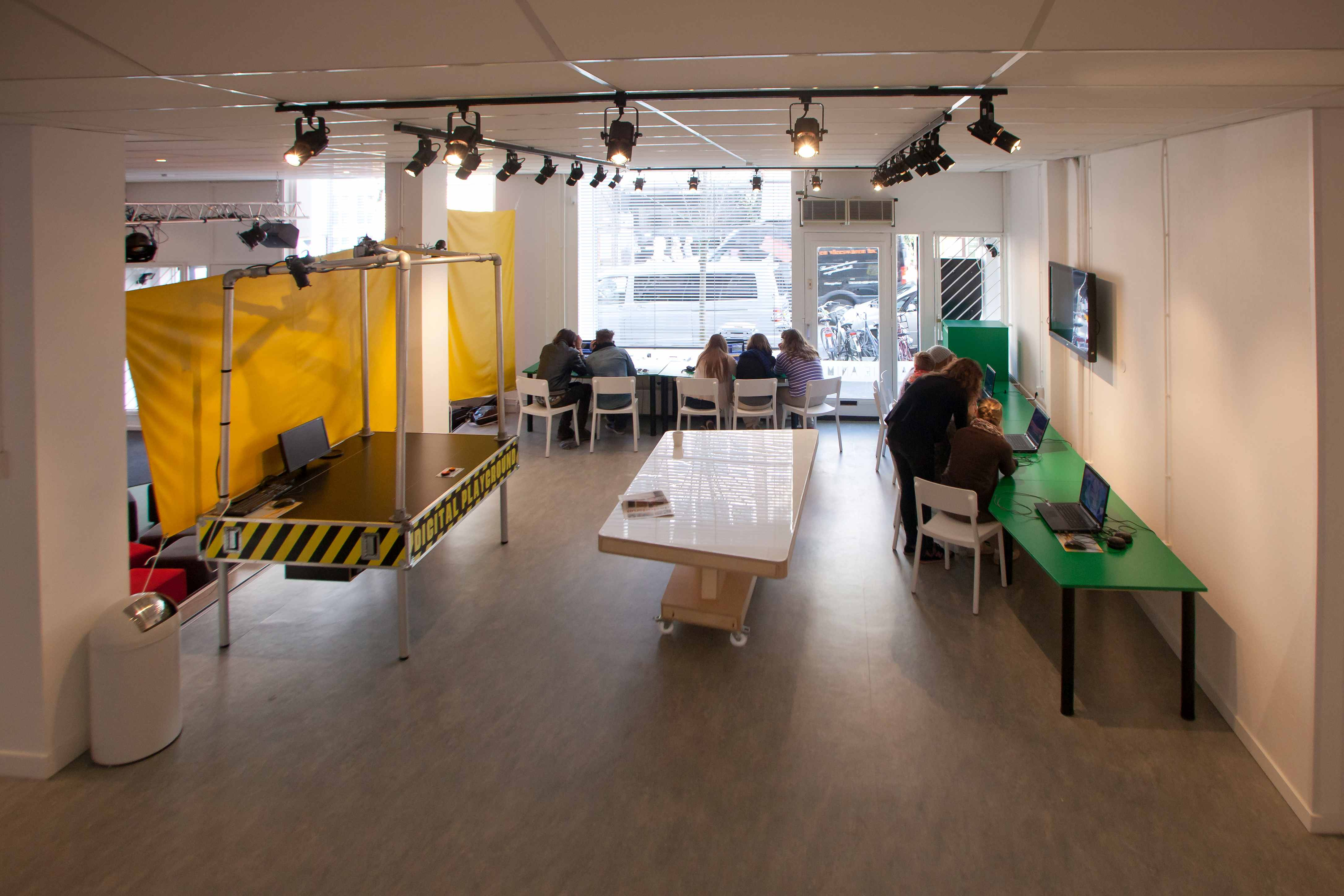 Werkruimte Digital Playground